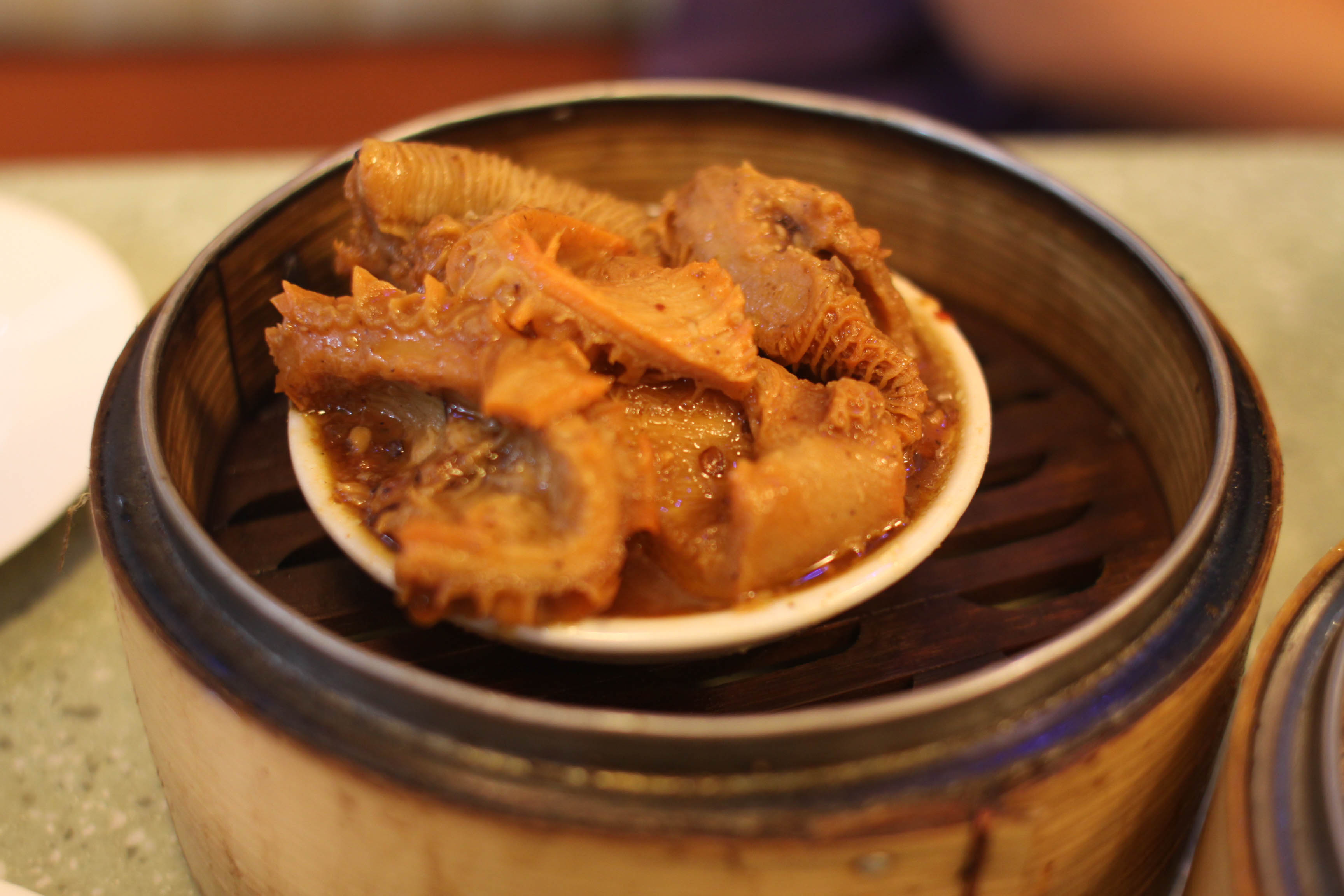 Reticulum as Dim Sum in Hong Kong